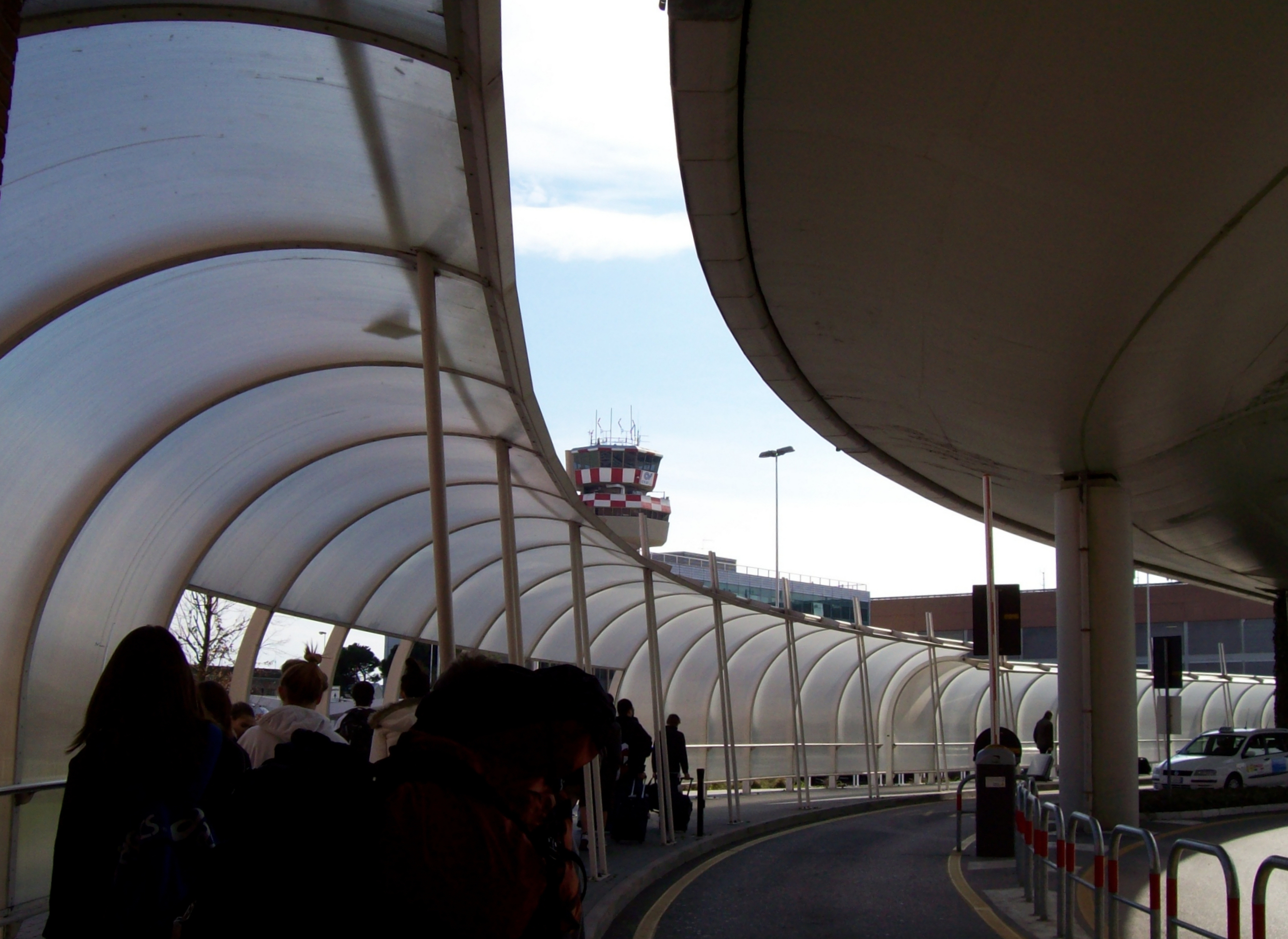 Taxi station outside Venezia Marco Polo Airport.